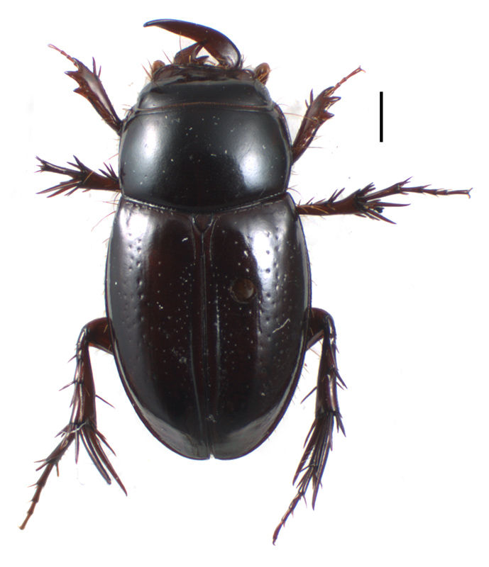 Madecorphnus falcatus Paulian male habitus.